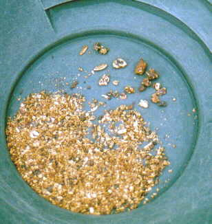 Alaskan Gold in pan, Blue Ribbon Mine, Alaska.